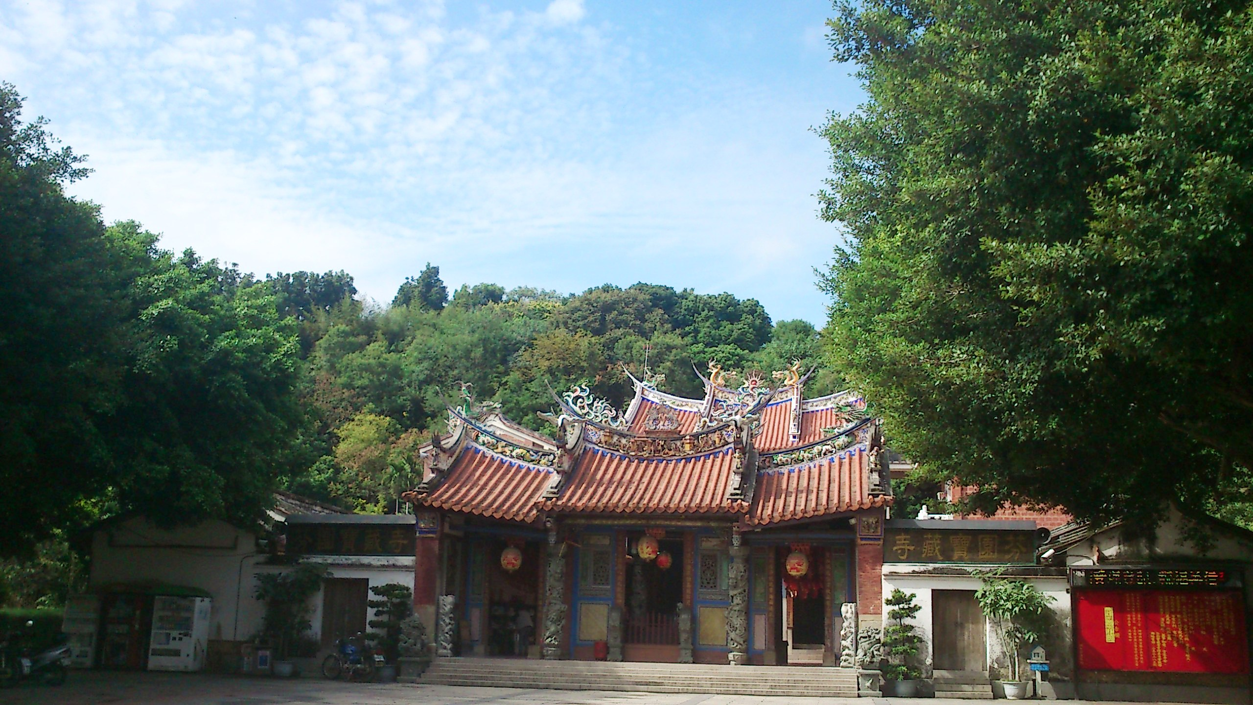 Baozan Temple in Fenyuan Township, Changhua County